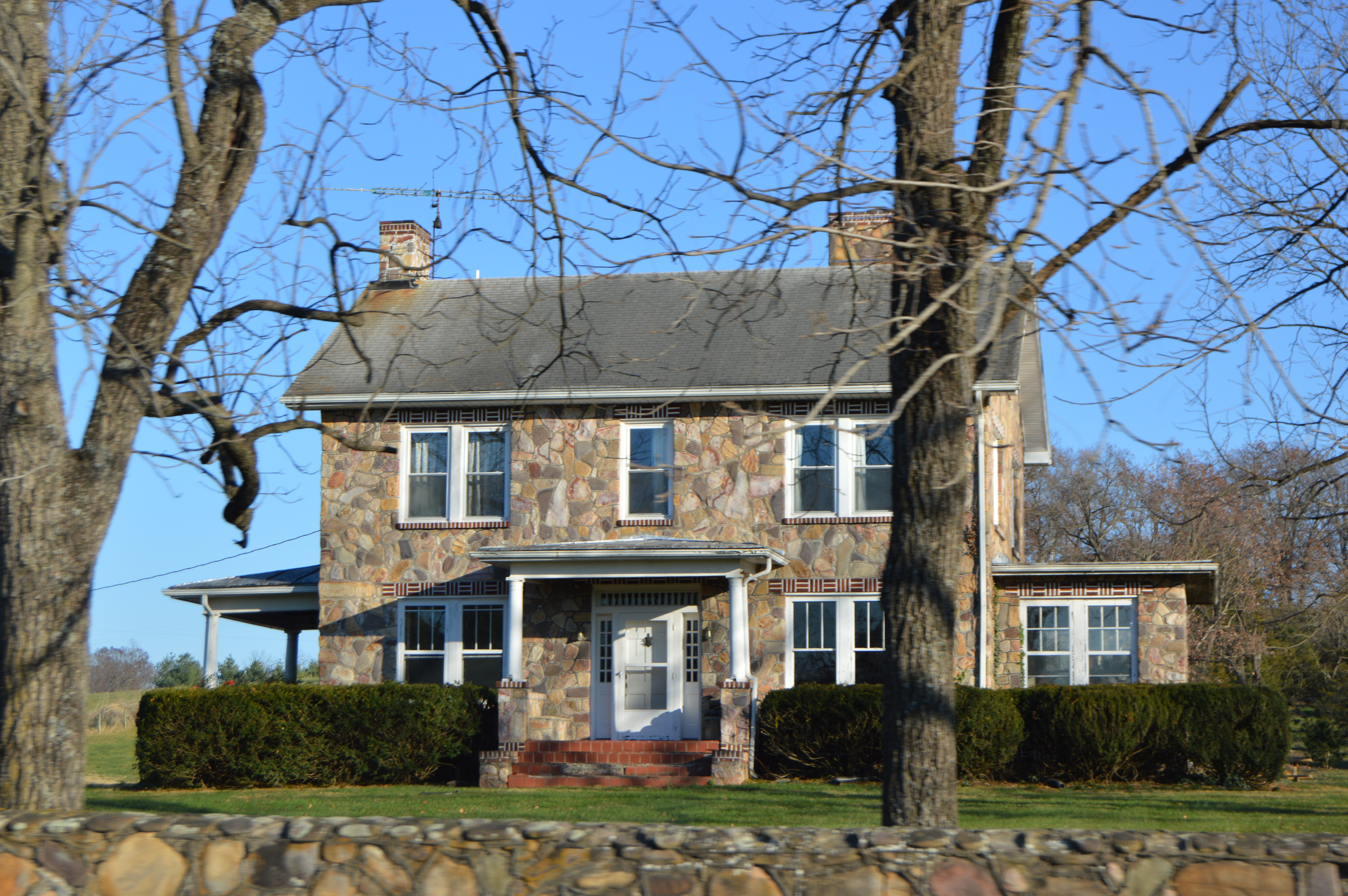 Front of the Peter Paul House, located at the intersection of Silling and Silver Lake Roads north of Dayton in Rockingham County, Virginia, United States. Built in 1810, it is listed on the National Register of Historic Places.